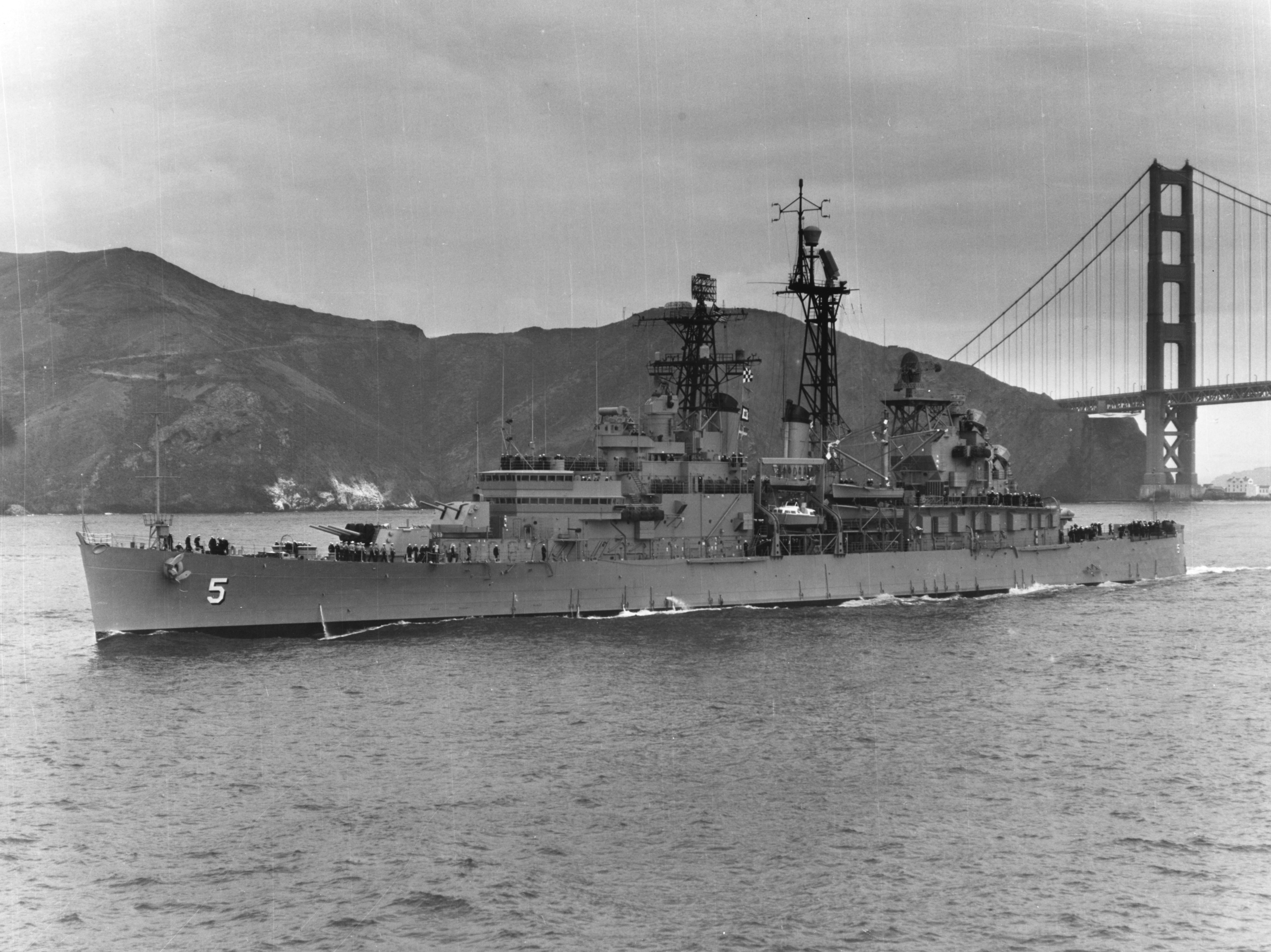 The U.S. Navy guided missile cruiser USS Oklahoma City (CLG-5) steams out of San Francisco Bay, California (USA), on 16 November 1960.